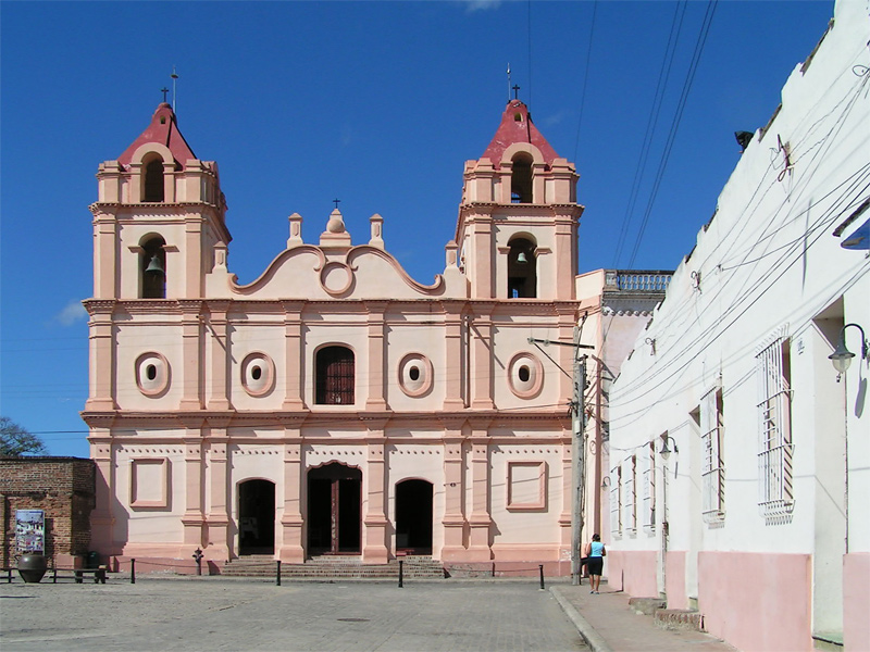 Church of Nuestra Señora del Carmen, Camagüey, Cuba.